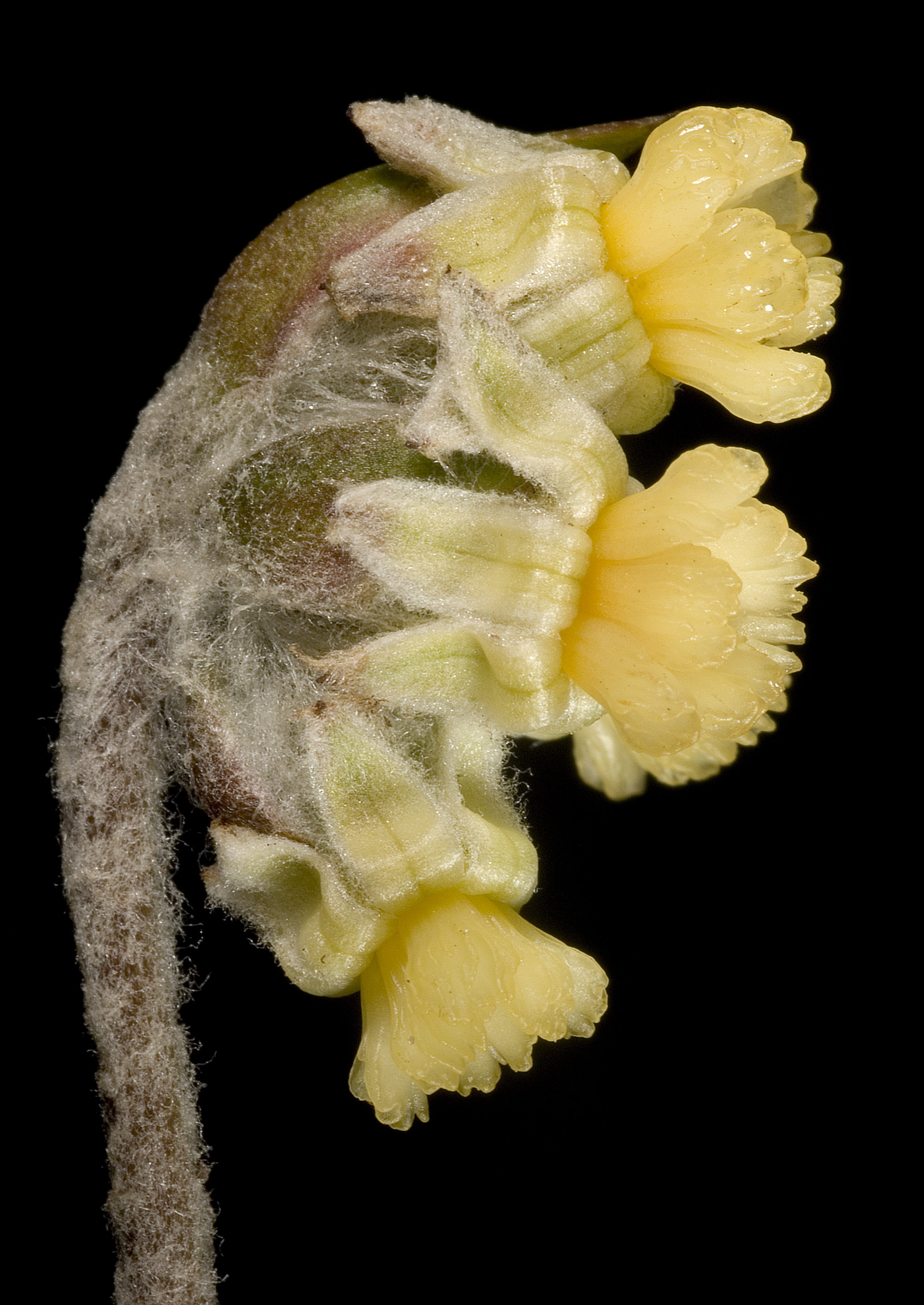 KL Brown 780